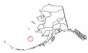 Map of Alaska highlighting Pribilof Islands